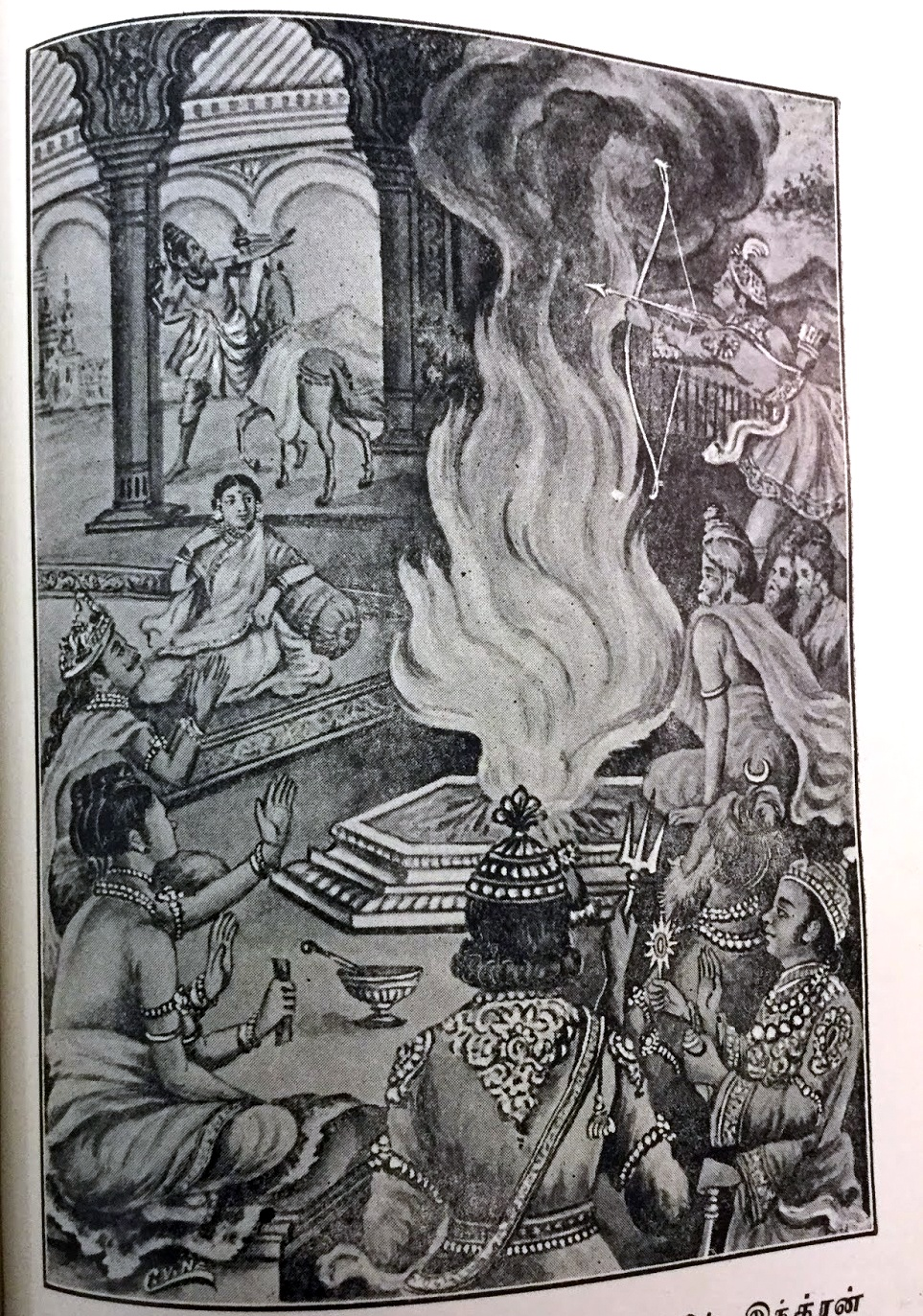 THESE ARE FROM A 100 YEAR OLD BOOK.